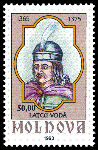 Stamp of Moldova